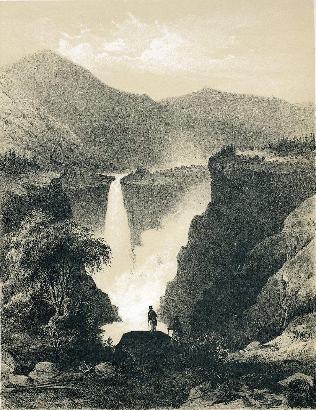 Pictures from the Work "Norge fremstillet i tegninger" 1848 by Chr. Tønsberg. Rjukanfossen, Tinn municipality, Telemark county, Norway.